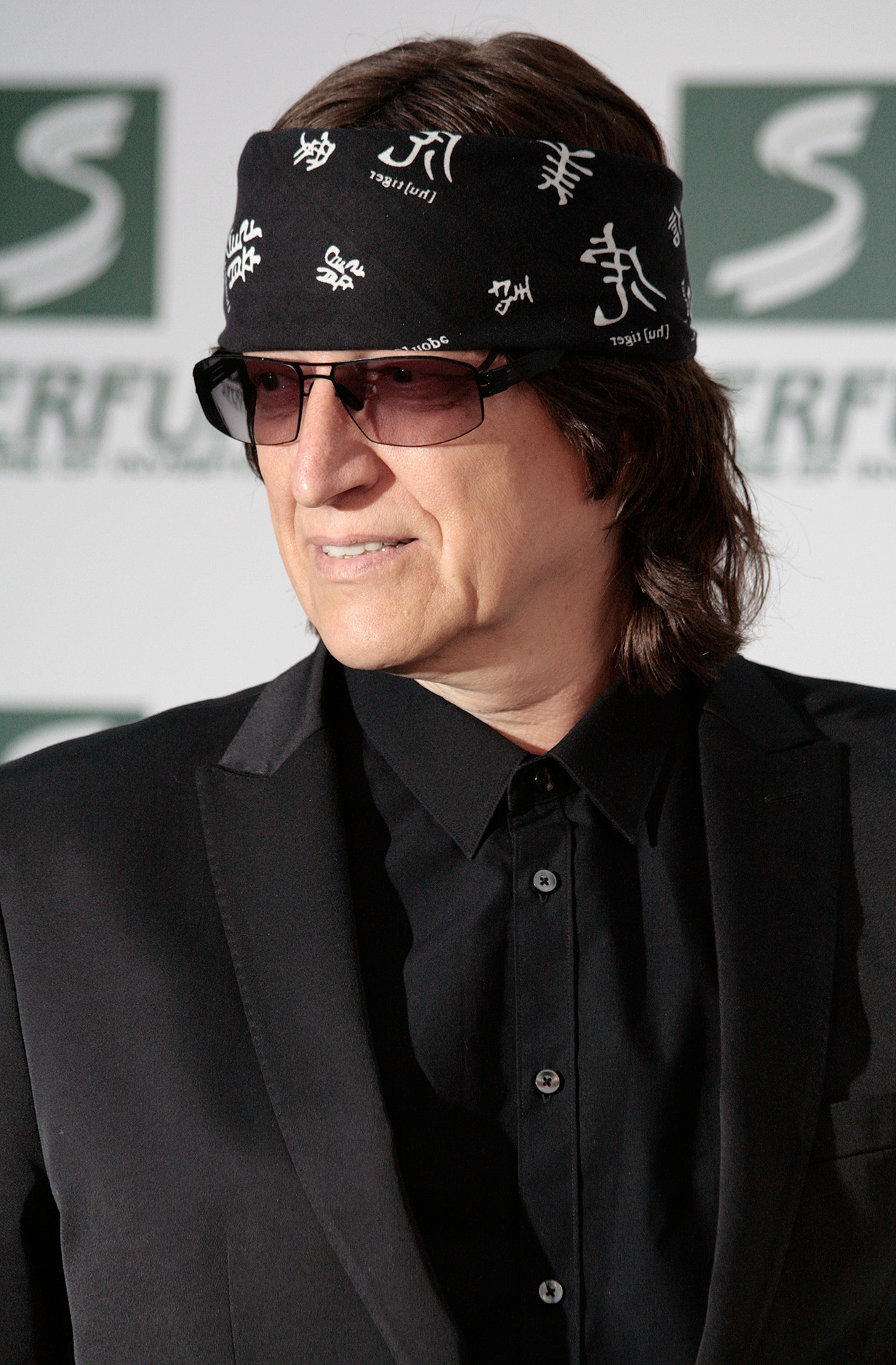 Gottfried Helnwein at the "green carpet" for the Save the World Awards 2009 (Zwentendorf Nuclear Power Plant, Lower Austria).